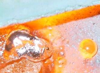 Copper just above its melting point keeps its pink color when enough light (the camera's flash in this case) outshines the orange incandescence color.